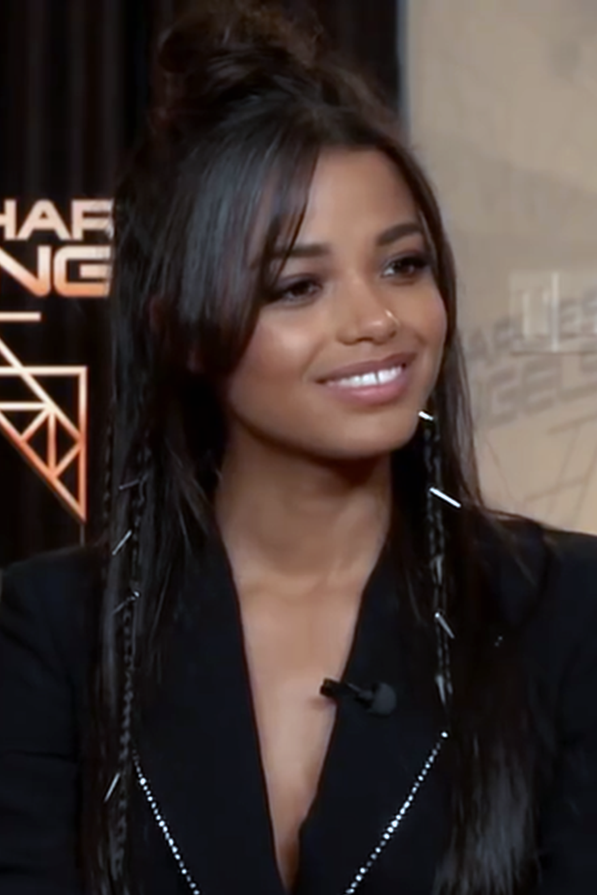 Ella Balinska during interview, November 2019.